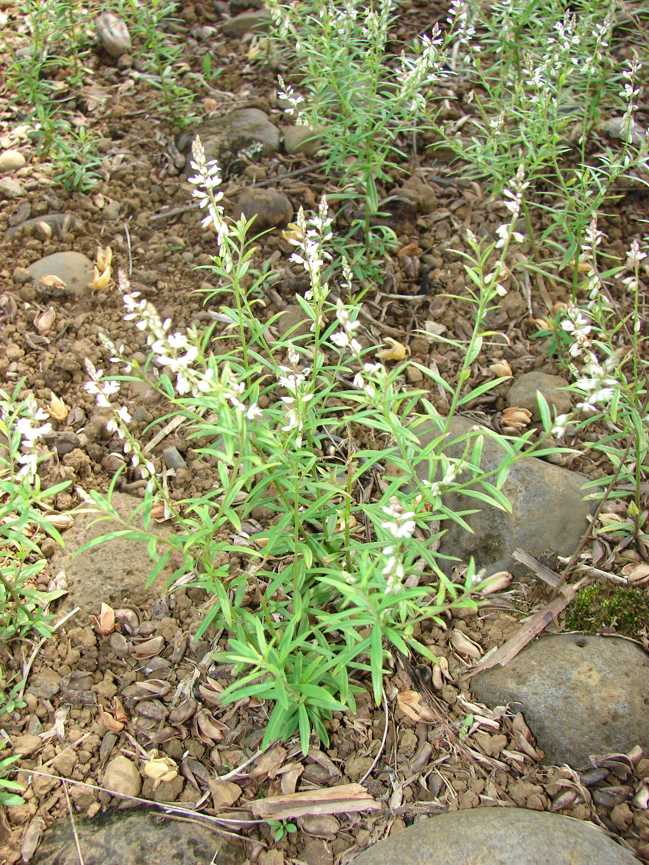 Polygala paniculata (in lawn). Location: Maui, Huelo